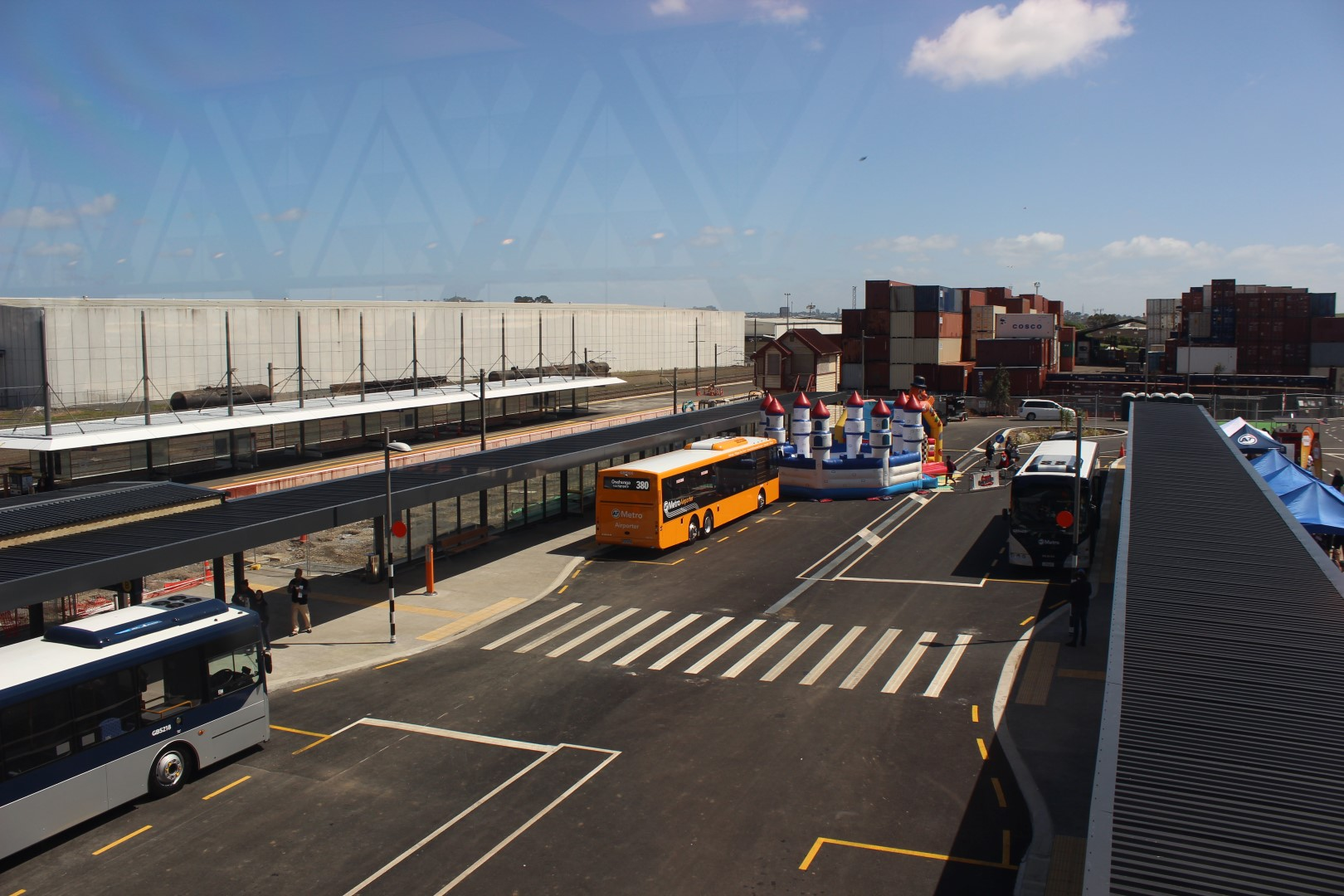 The bus platforms at Otahuhu station looking from the overbridge. A bouncy castle is set up for the open day being held at the time; bus services commenced using the station the following day.